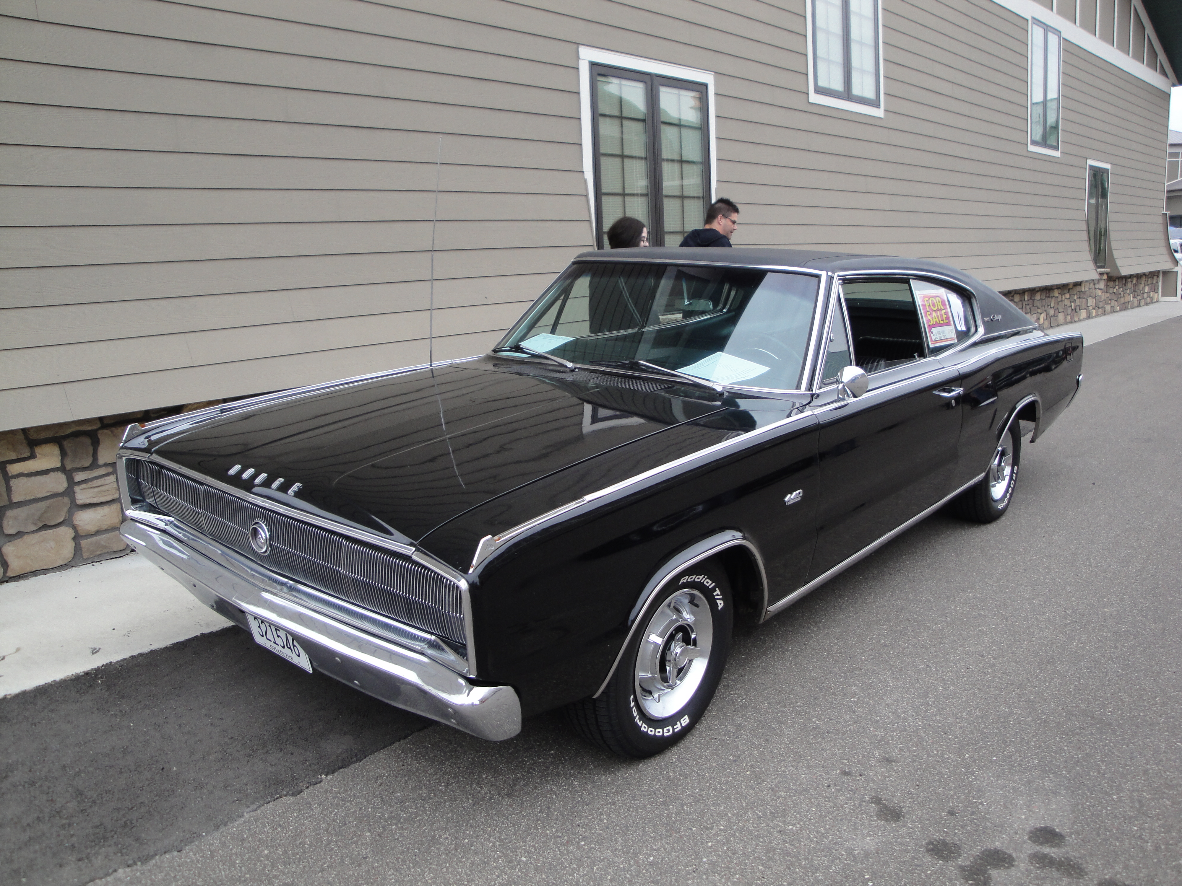 AutoMotorPlex Top 21 All Mopars Car Show hosted by MnChallengers.